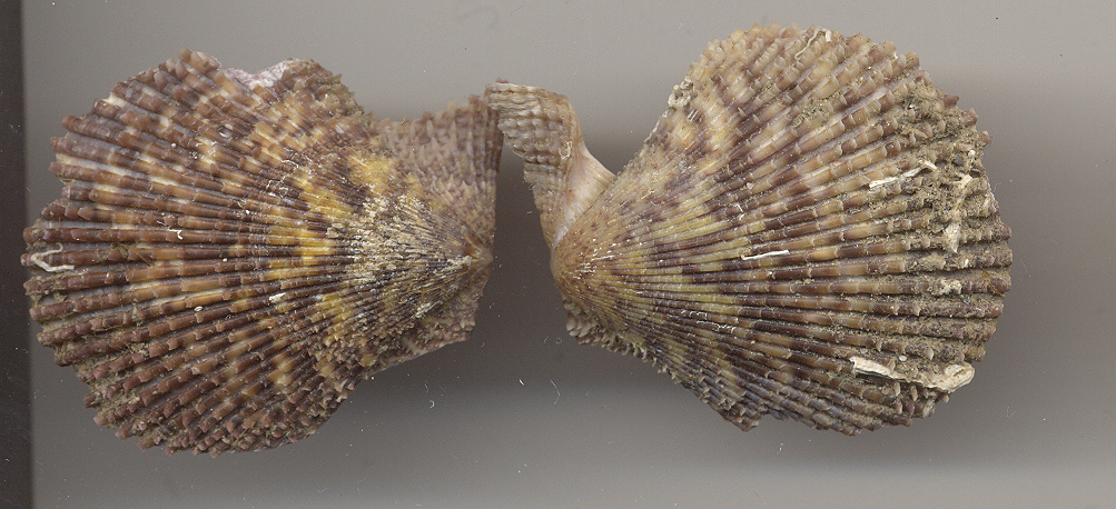 My own scan of a Chlamys varia (Spain, Costa Brava)